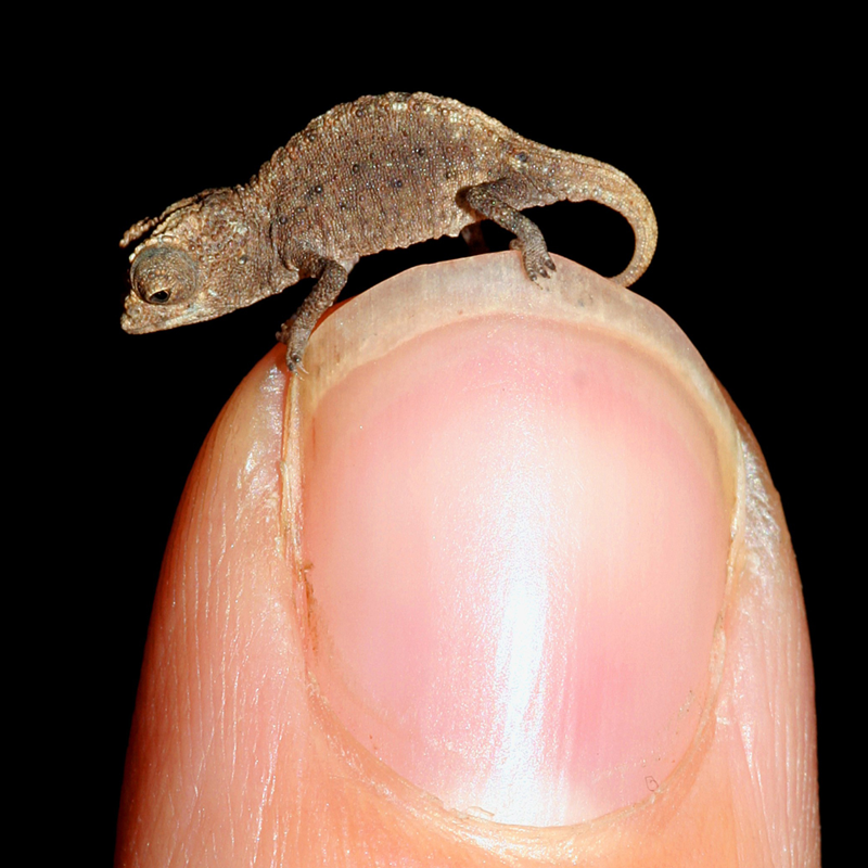 A juvenile Brookesia micra standing on a human finger tip.